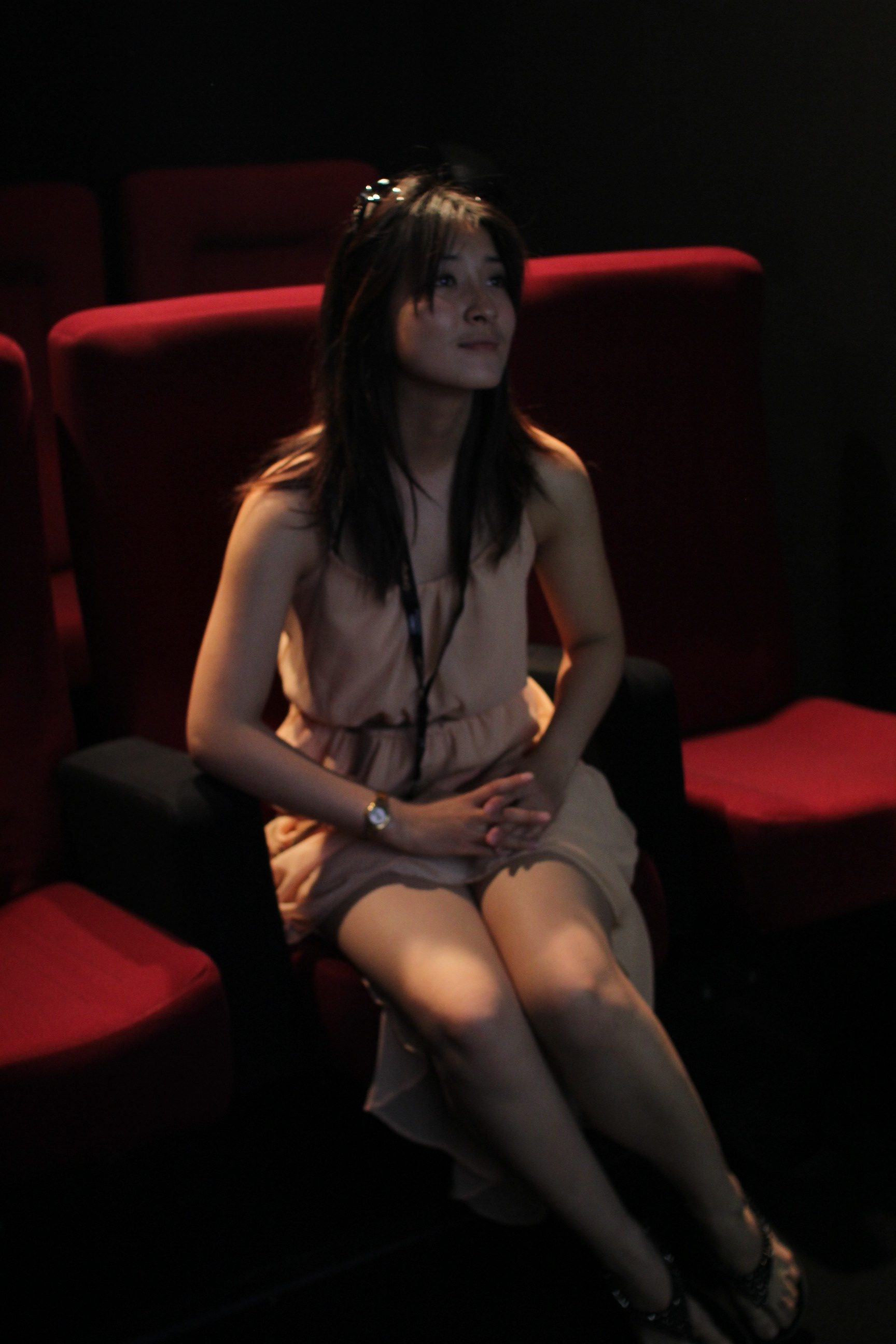 director Chieh Yang @Cannes